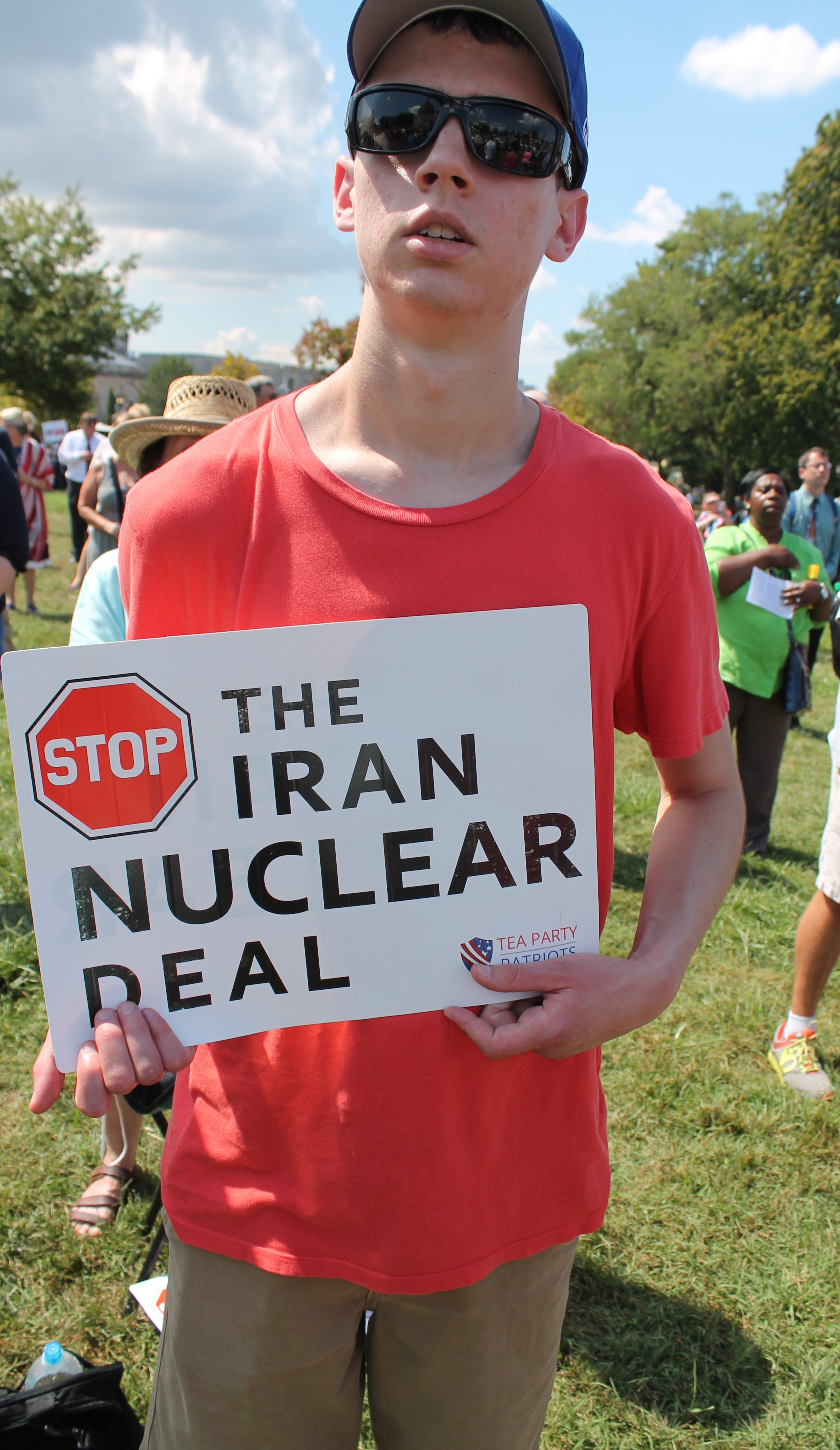 Tea Party Patriots STOP THE IRAN NUCLEAR DEAL RALLY on the US Capitol West Lawn in Washington DC on Wednesday morning, 9 September 2015 by Elvert Barnes Protest Photography Tea Party Patriots STOP THE IRAN NUCLEAR DEAL website at Elvert Barnes PROTEST PHOTOGRAPHY at